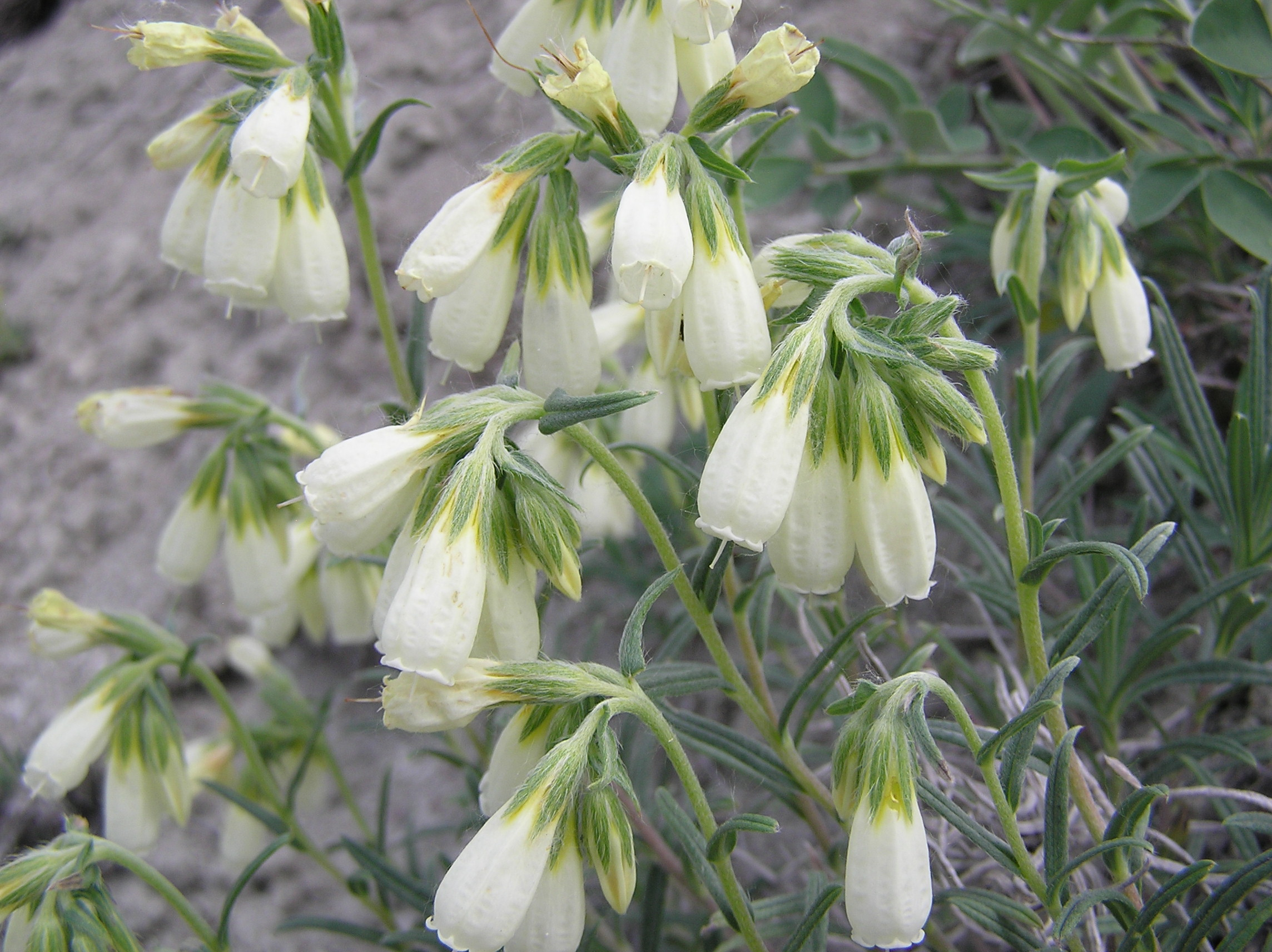 Onosma simplicissima ssp. volgensis Dobrocz., flowers. Habitat: southern chalk slope. Vicinity of Saratov city, Russia.